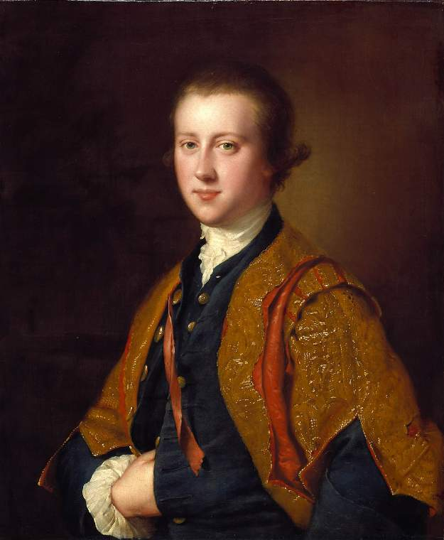 Depicted person: Richard FitzWilliam